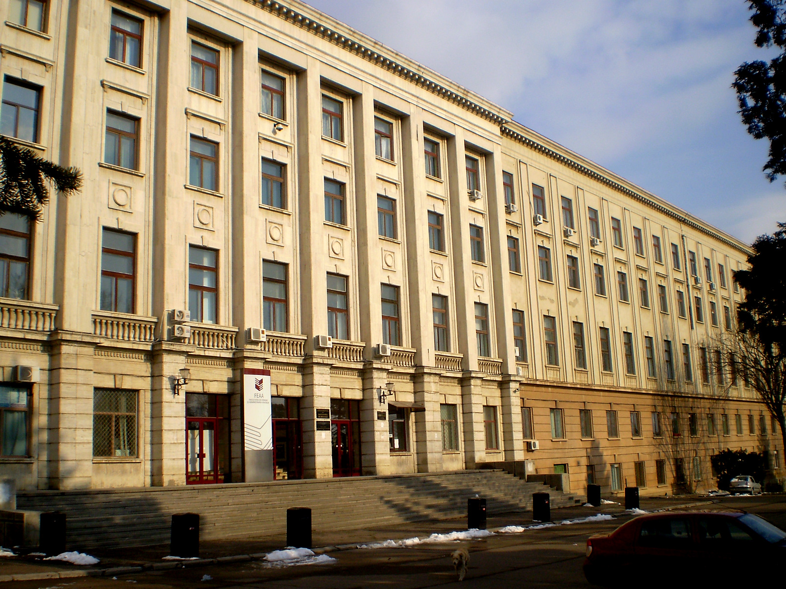 Alexandru Ioan Cuza University of Iaşi , Building B , Iaşi , Romania